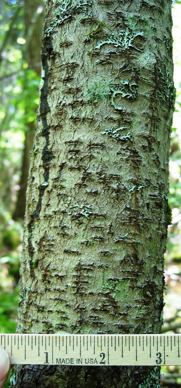 Toxicodendron vernix (L.) Kuntze - poison-sumac - old bark, Maine, United States